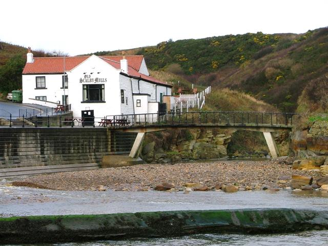 Scalby Beck and the Old Scalby Mills, North Yorkshire